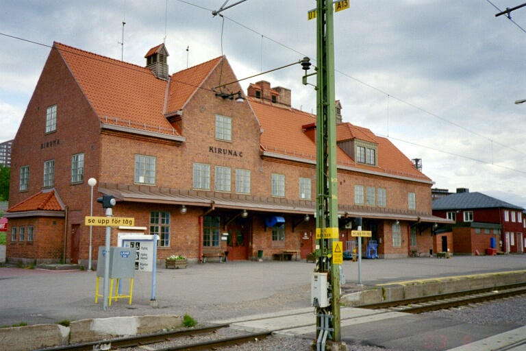 Kiruna Central station